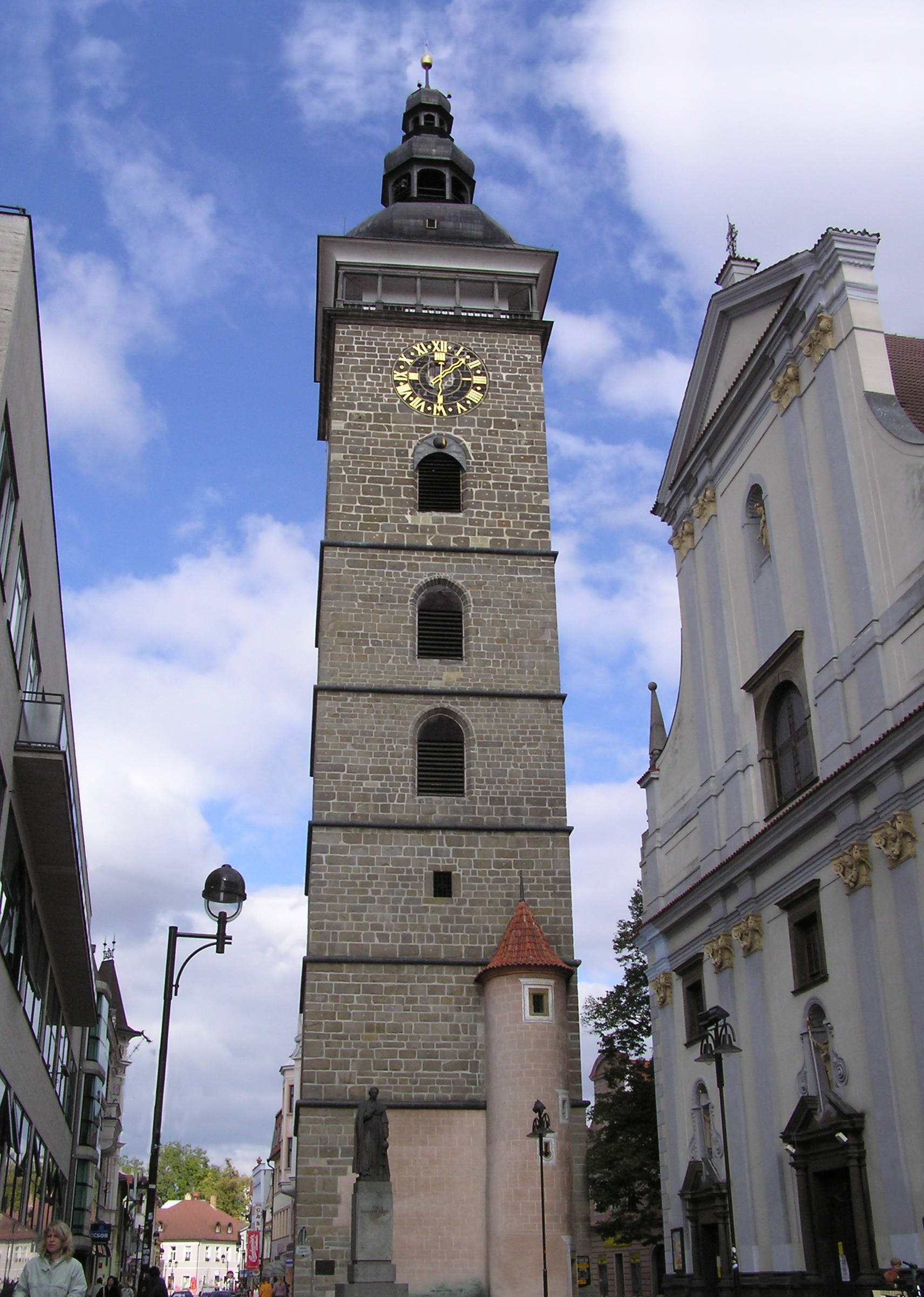 Black Tower in České Budějovice. On right is cathedral of Sankt Nicolas, before Tower is statue of Jan Valerián Jirsík, 4th bishop of České Budějovice.